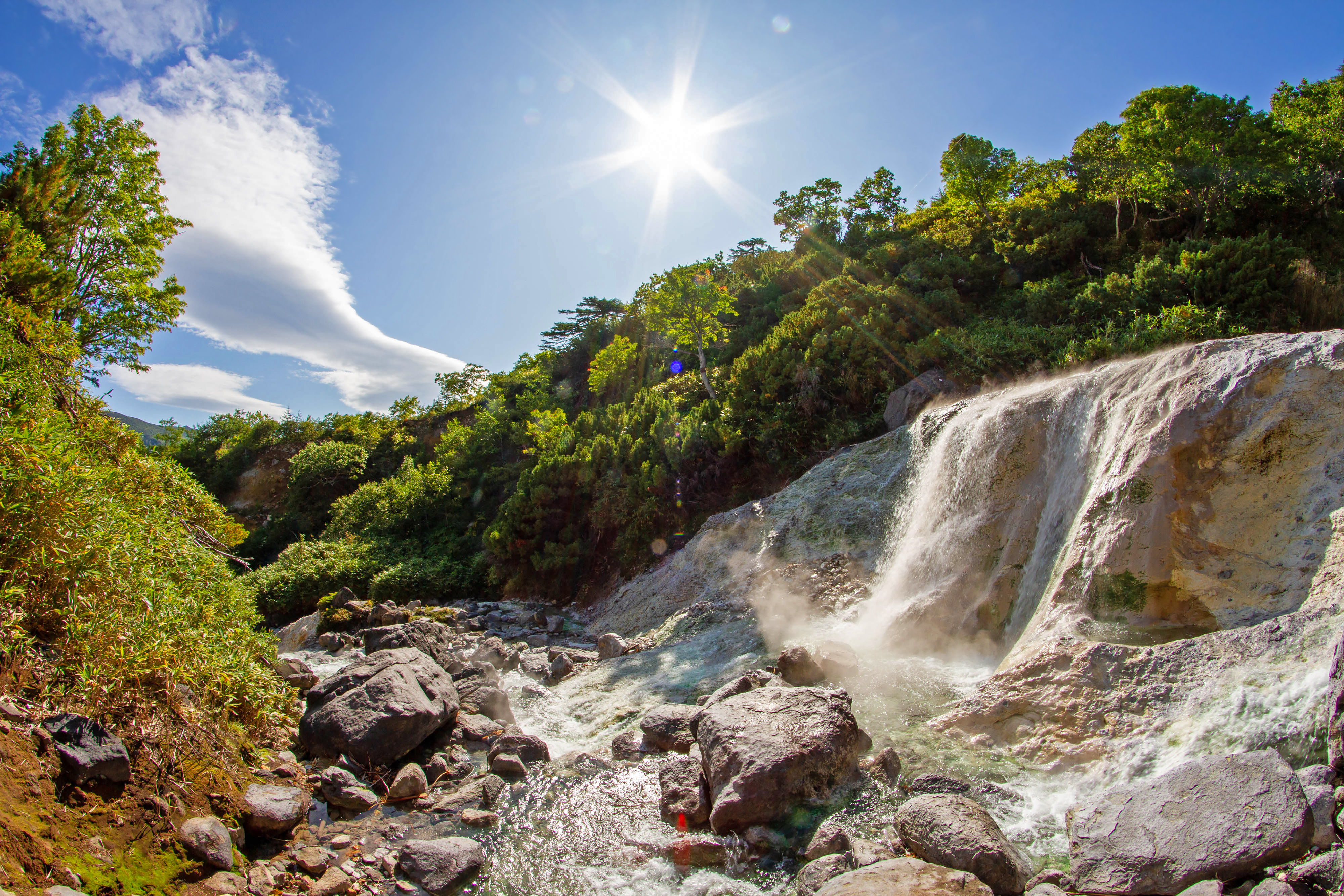 Iturup Island nature, fall 2019